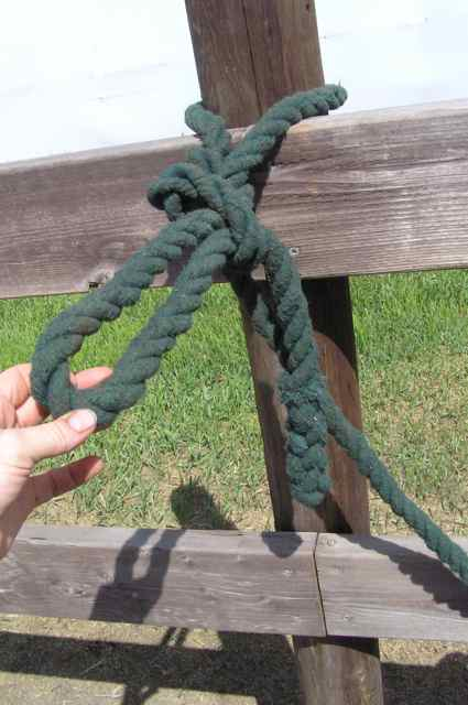 A quick release safety knot suitable for tying animals. the knot will release when you pull on the free end